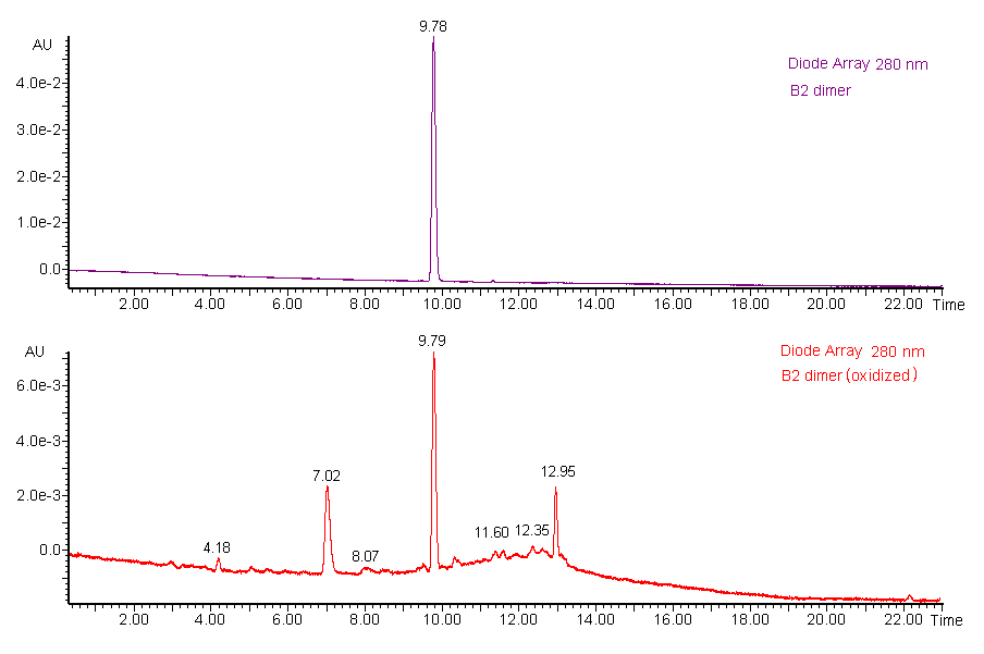 Chromatograms showing oxidation of procyanidin B2